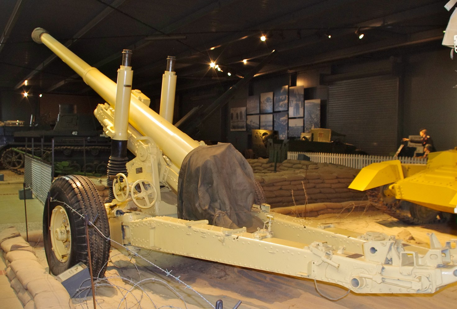 Photograph of British BL 4.5 inch Medium Field Gun, at Imperial War Museum Duxford.